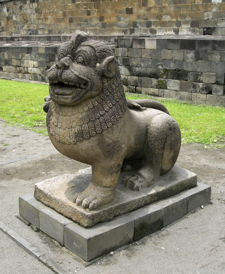 One of four pairs of Lion gate guardian stone statue in Borobudur, Central Java.